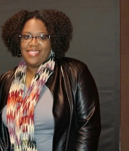 Karintha Styles April 1, 2017, Hyatt Regency downtown Dallas during the 2017 NCAA Women's Final Four.